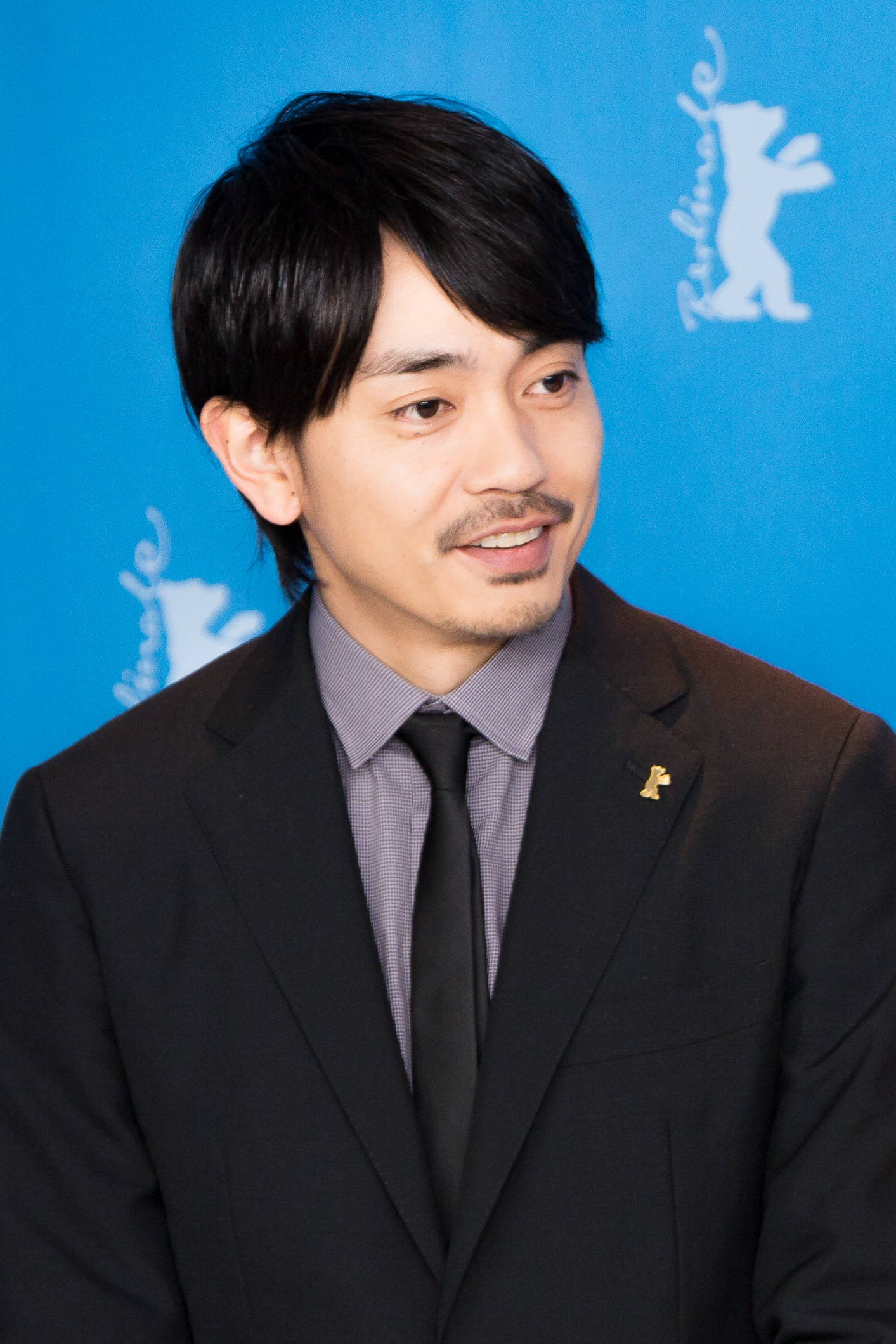 The actors Shô Aoyagi of Mr. Long at the Berlinale 2017